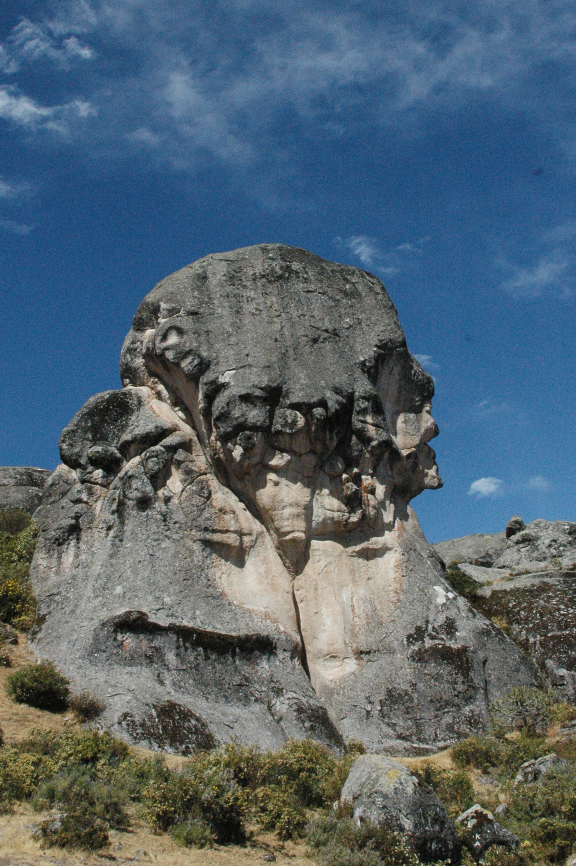 The notable rock formation that is the symbol for Marcahuasi in San Pedro de Casta, Lima, Peru